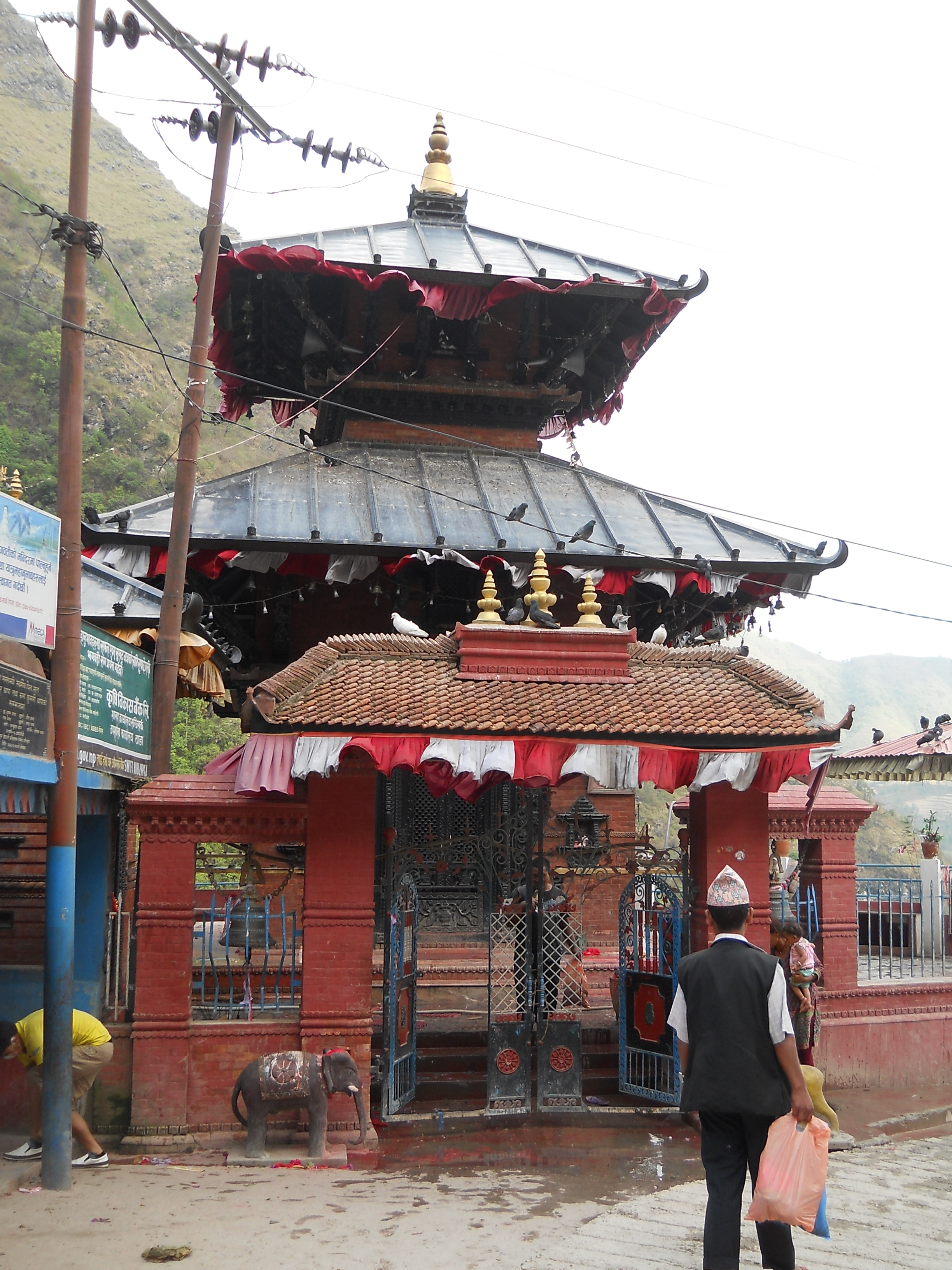 सुपा देउराली अर्घाखाँचीको एक प्रख्यात मन्दिर